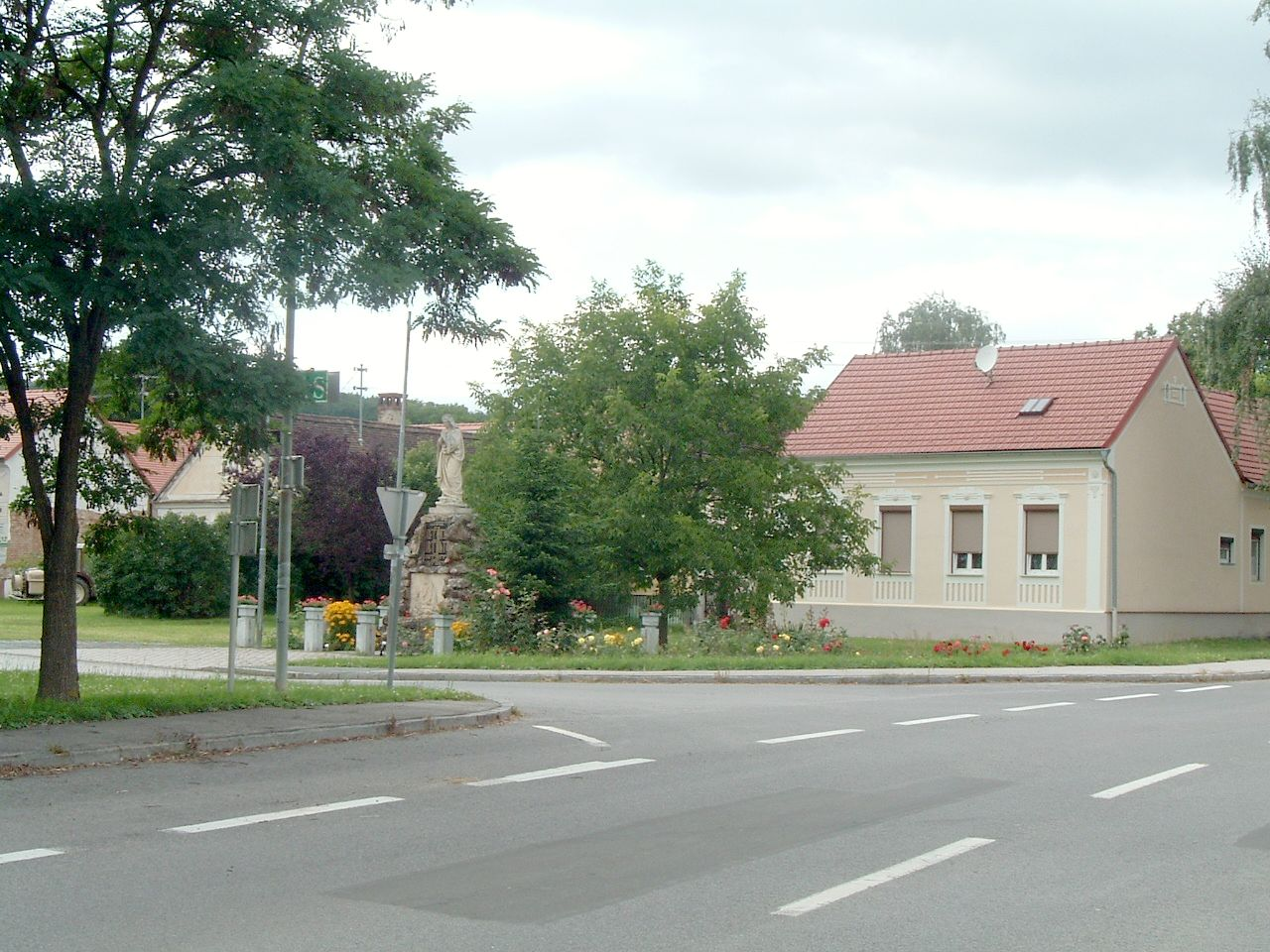 Eisenberg (Csejke), Burgenland